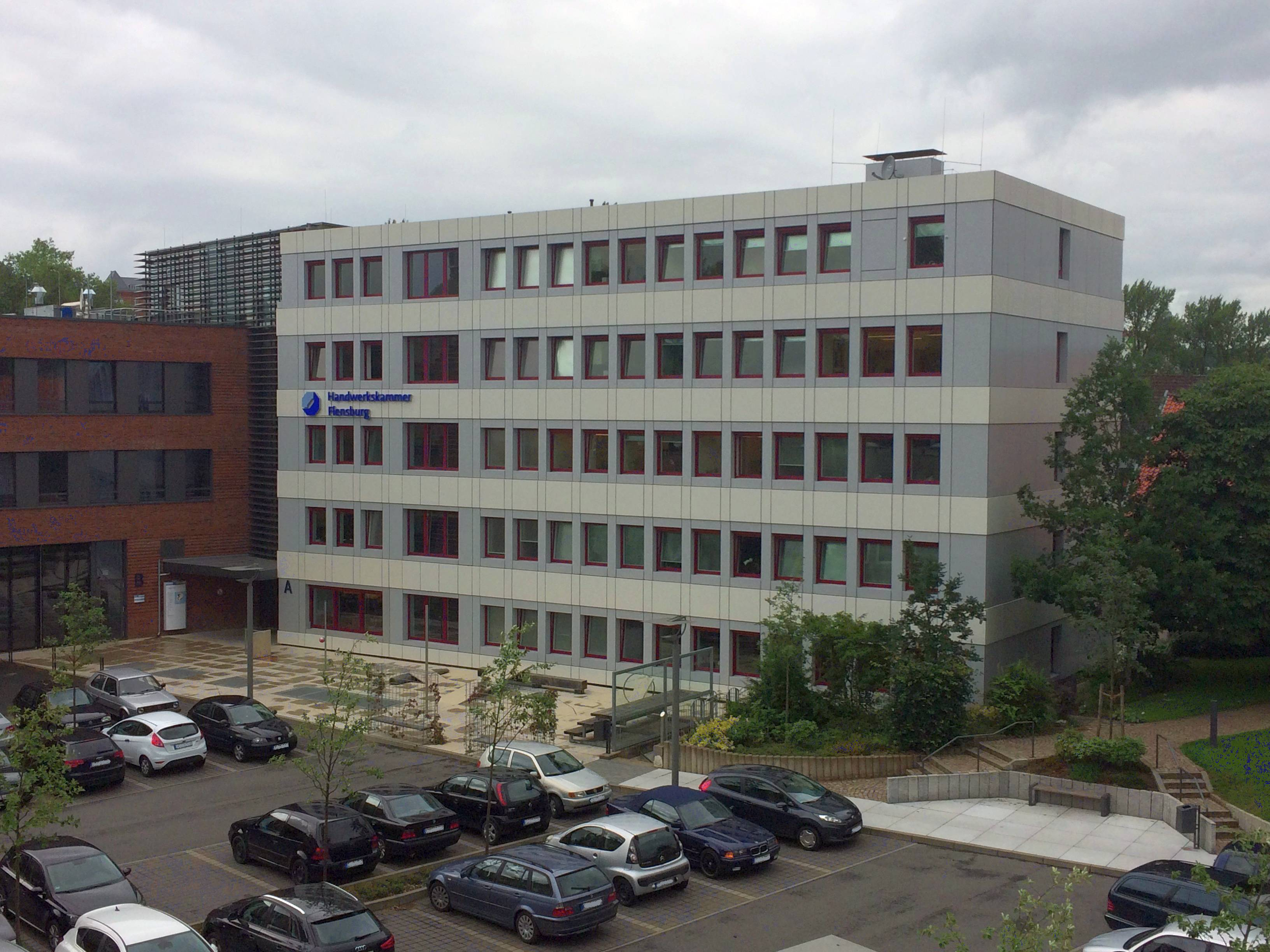 Handwerkskammer Flensburg Main Building